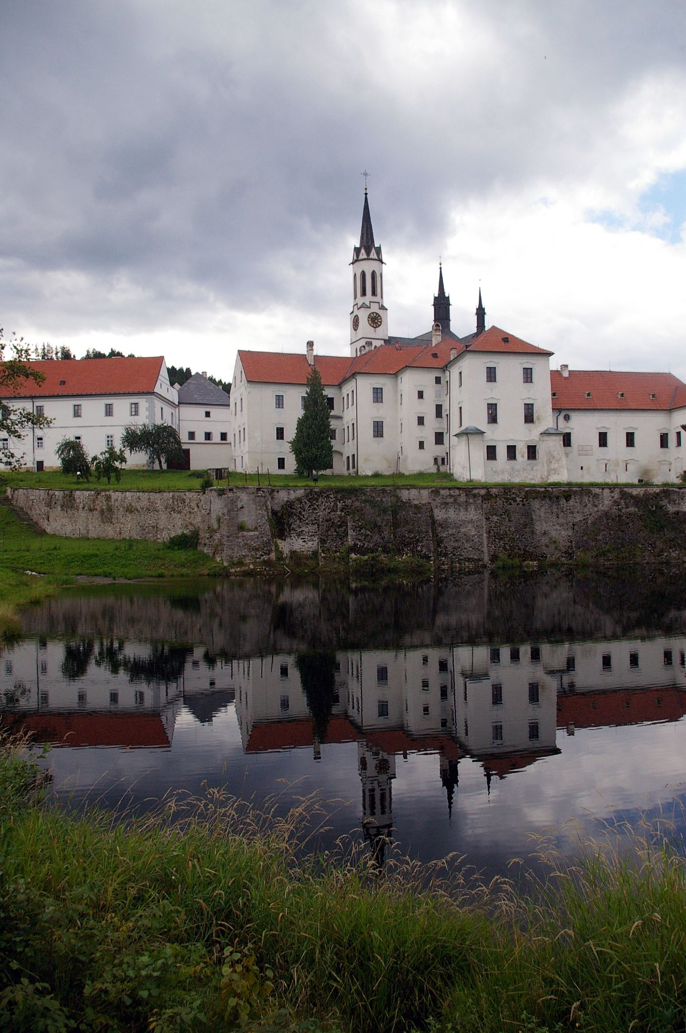 Monastery in Vyšší Brod, Czech Republic.